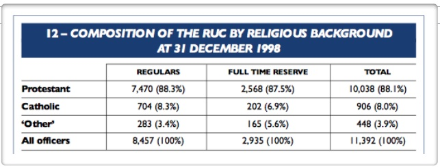 Table outlining the representation of Protestants and Catholics in the Northern Irish police force